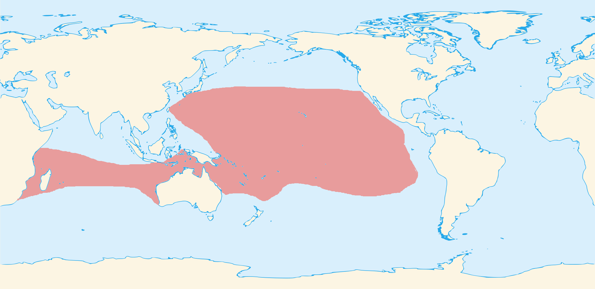 Range of red-tailed tropicbird. Base map is File:World pacific centered.svg. Data for map from Handbook of Australian, New Zealand & Antarctic Birds. Volume 1: Ratites to ducks; Part B, Australian pelican to ducks, Oxford University Press, p. 917 ISBN: 978-0-19-553068-1.